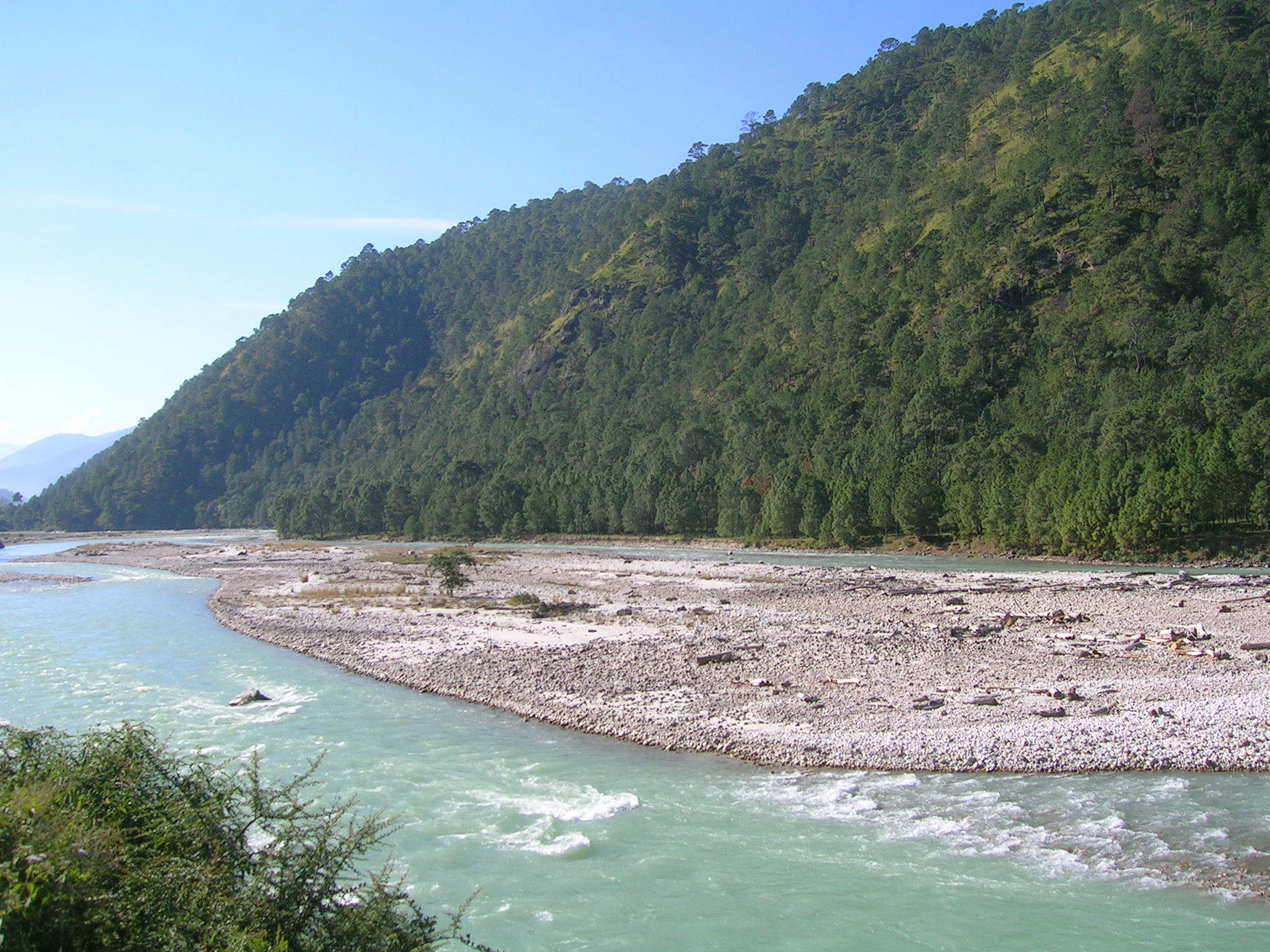 Punakha river - tributary - Pho chu - habitat of White-bellied Heron, Bhutan